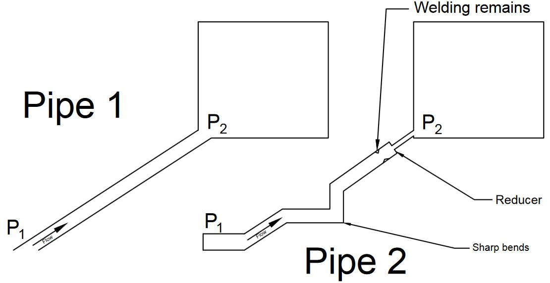 Two similar case of piping, second case contains some sharp bending and some obstruction to flow.